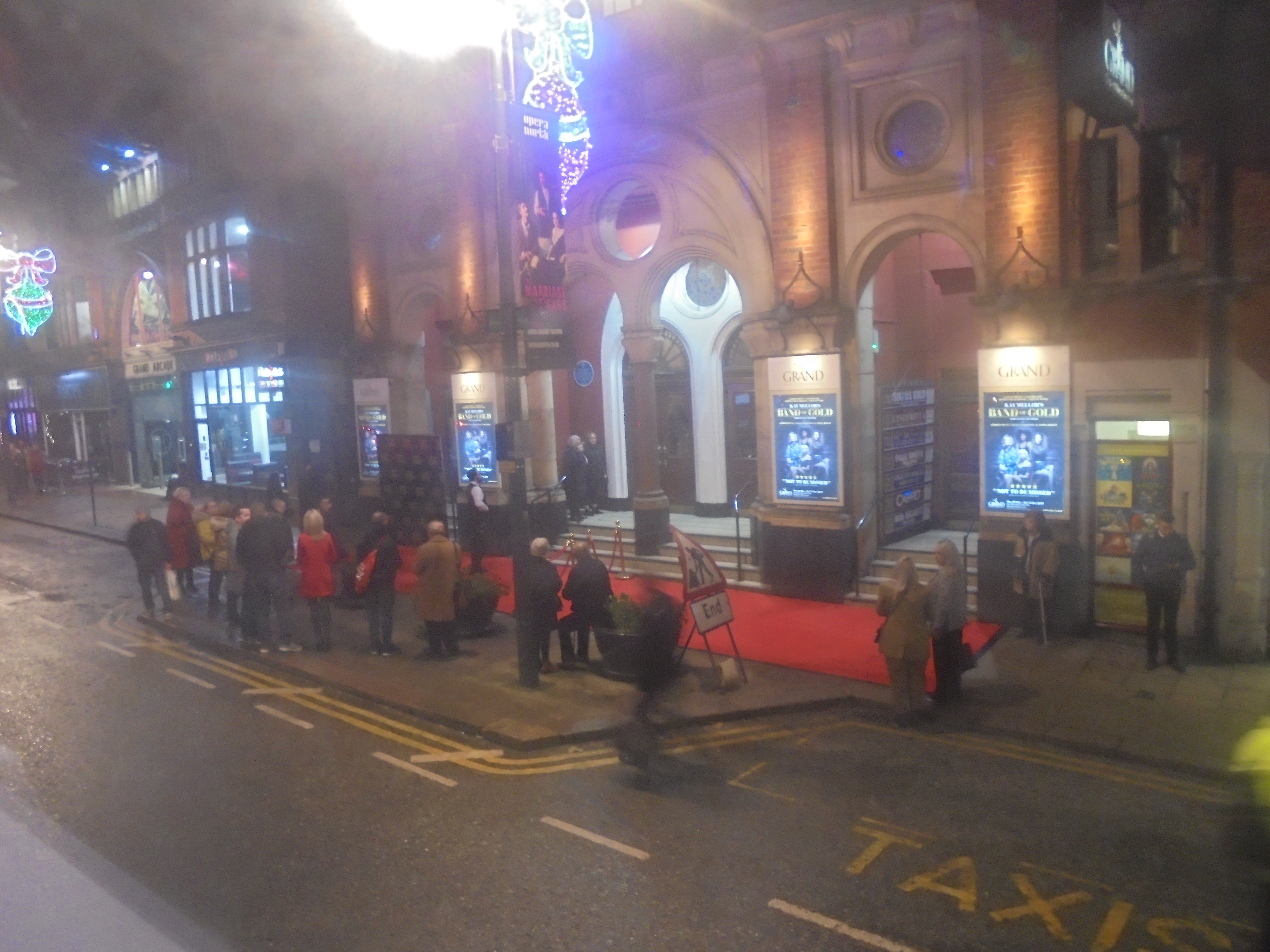 Opening night of Band of Gold, Grand Theatre, Leeds, West Yorkshire. Taken on the evening of Tuesday the 3rd of December 2019.